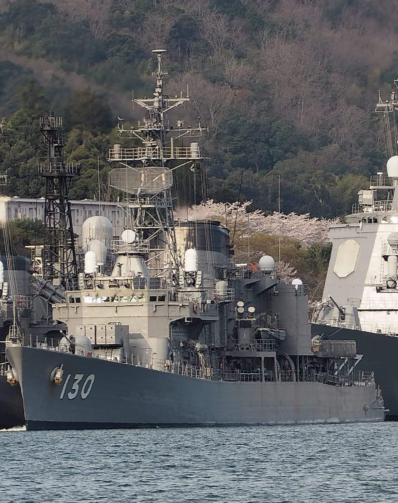 JS Matsuyuki. This class have unique wave sheer line.